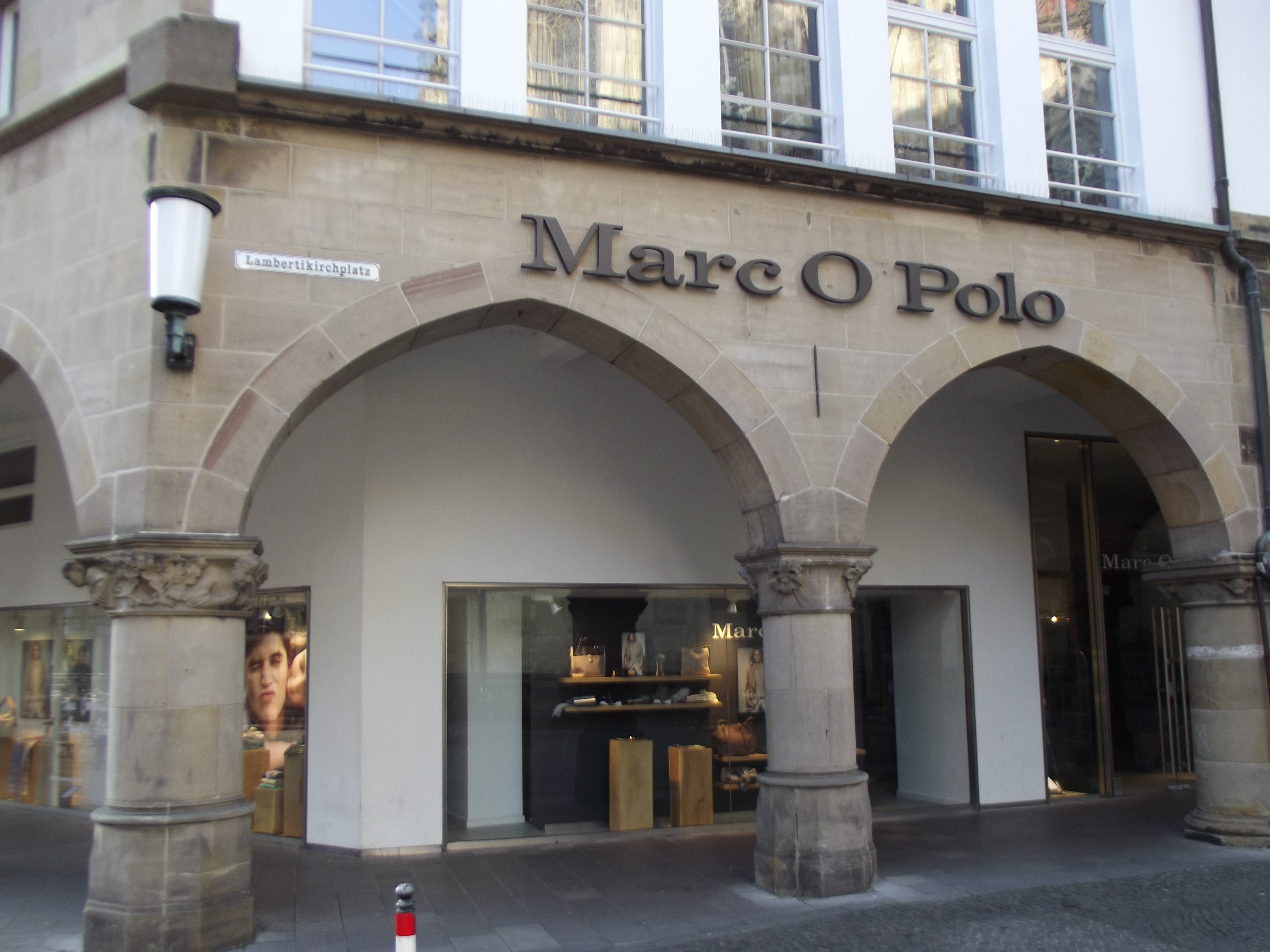 A Marc O' Polo shop in Germany (Münster, Westphalia)